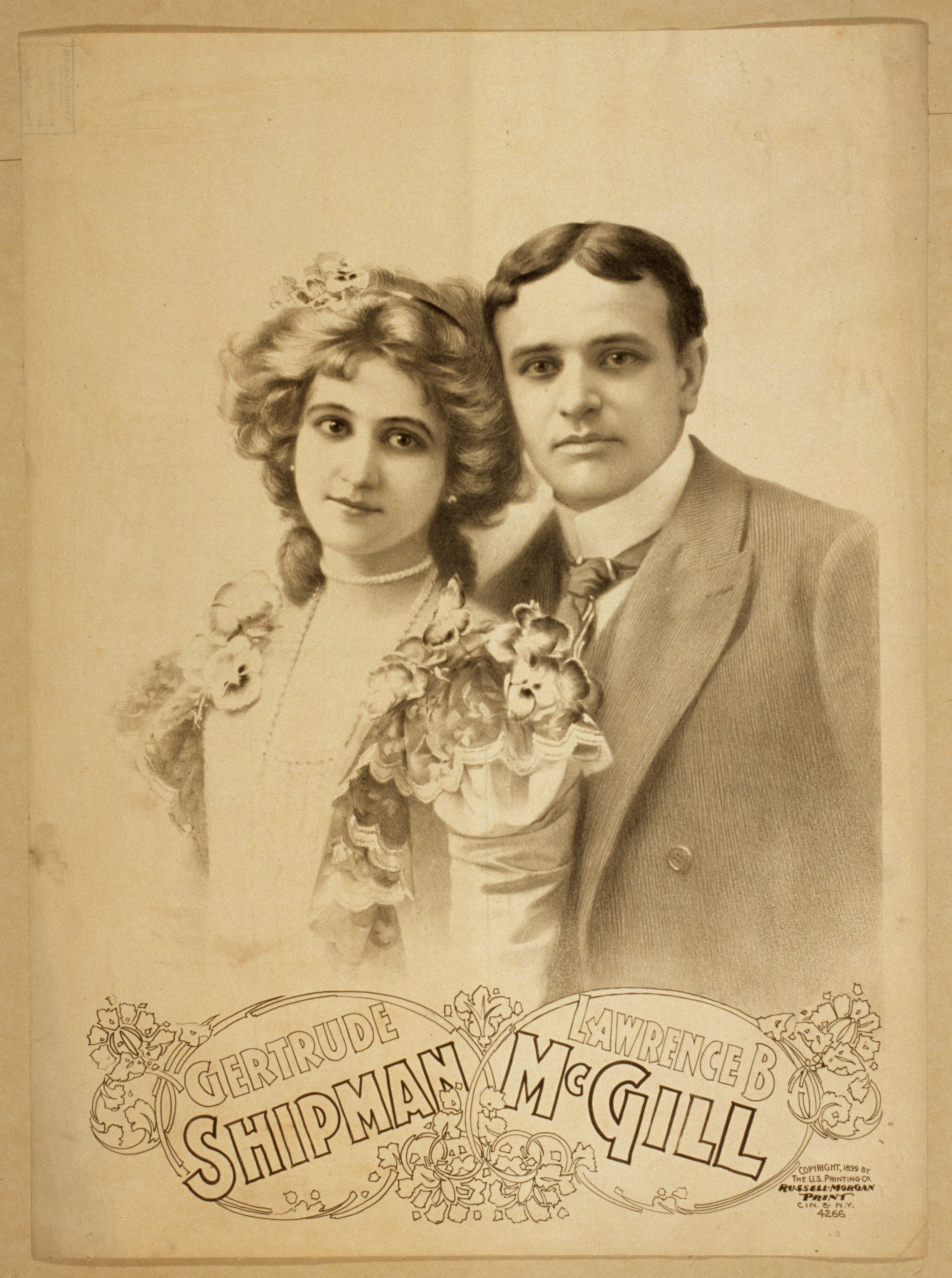 Title: Gertrude Shipman, Lawrence B. McGill Abstract/medium: 1 print : black and white lithograph ; sheet 70 x 52 cm. (poster format)